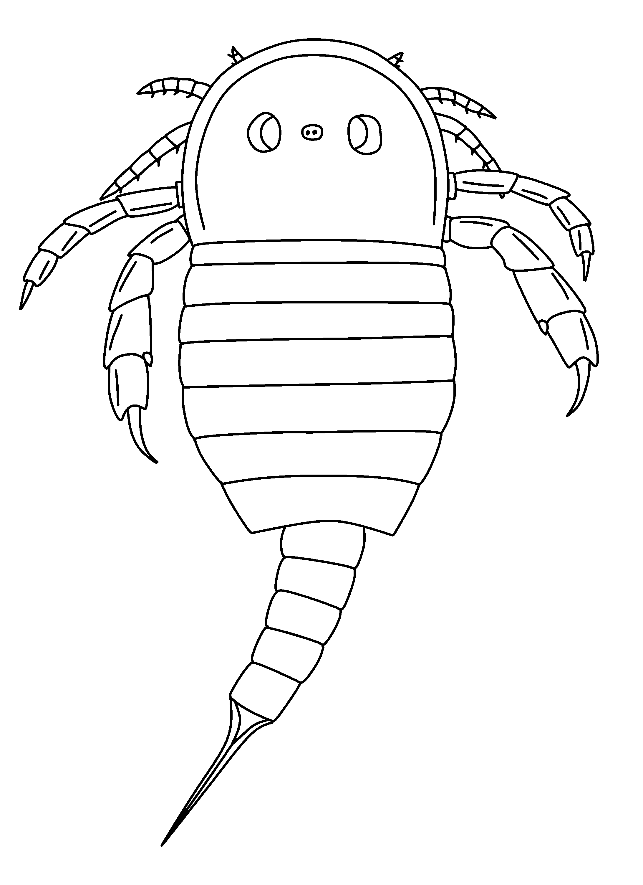 Restoration of the eurypterid species Alkenopterus burglahrensis, hypothetical second to fifth pair of appendages. General body based on Poschmann & Tetlie, 2004, podomere 7a based on Poschmann, 2014, second to fourth pair of appendages mostly based on Braddy et al., 1995.